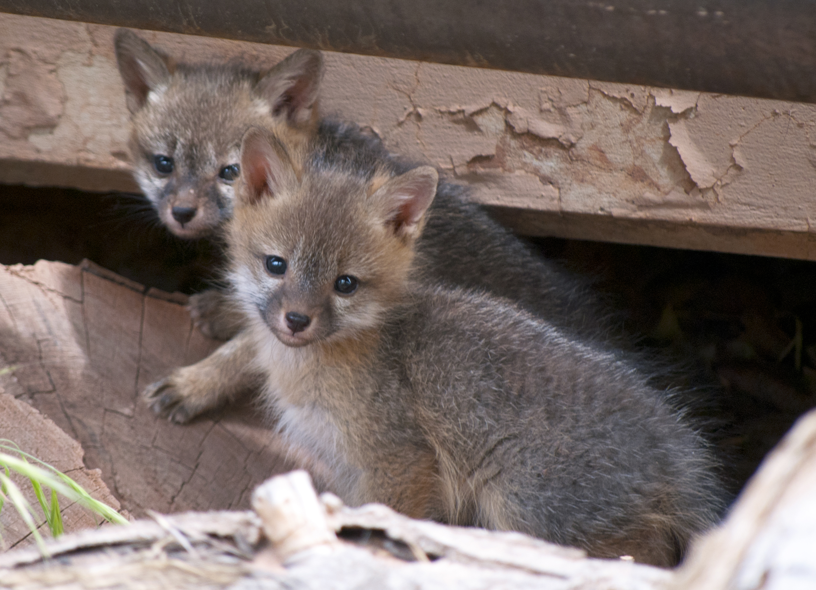 In early summer, gray fox (Urocyon cinereoargenteus) kits emerge and begin to explore their home in Zion Canyon. NPS Photo/Christopher Gezon